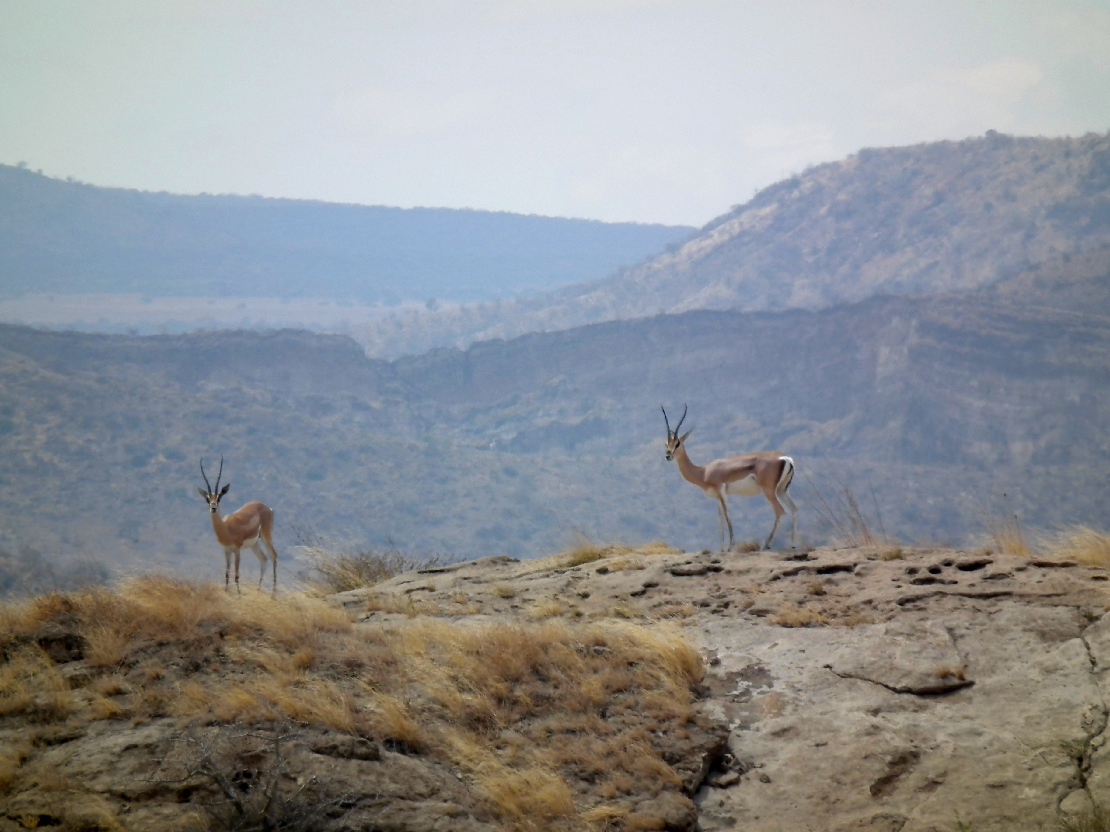 Grants Gazelle Gazella granti, picture taken in Tanzania